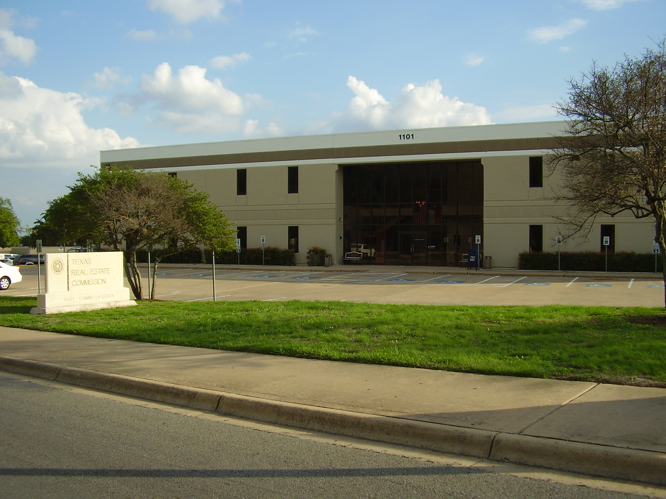 Texas Real Estate Commission